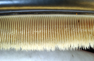 Baleen. I believe this to be in the Public Domain.